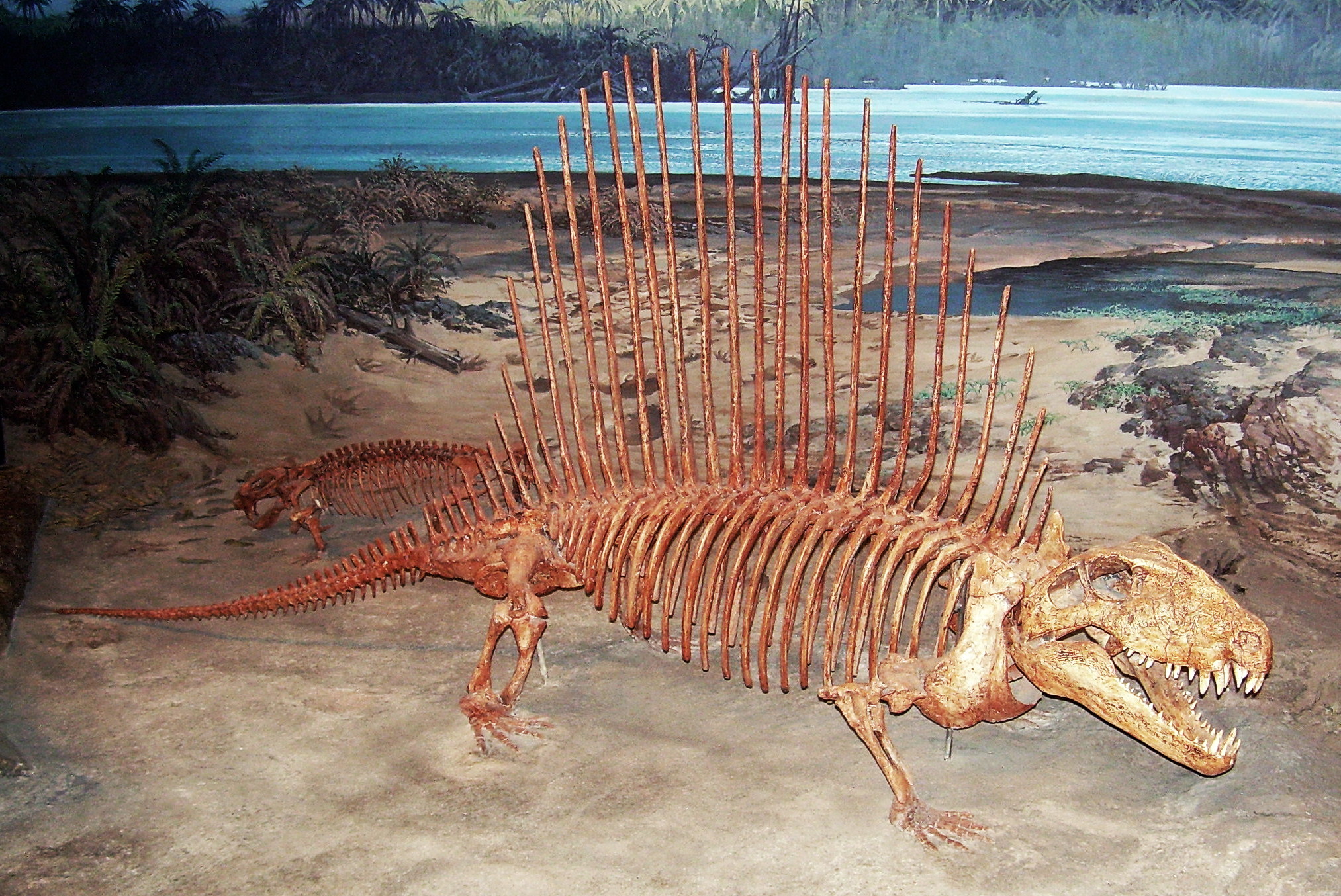 Photograph of a fossil cast of a Dimetrodon skeleton taken at the North American Museum of Ancient Life.